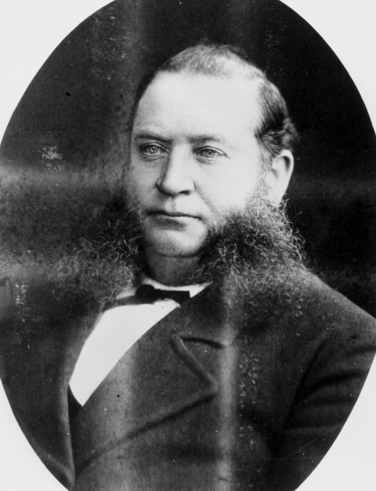 James Foote James was third son of Joseph and Elizabeth (Clarke) Foote. He came to Moreton Bay in the Emigrant, August 1850, aged 22. James and Catherine lived eventually in Ipswich and their home was Bleak House, Newtown, Ipswich. (Information supplied with photograph.). Foote served as a Queensland MLA for Bundamba.